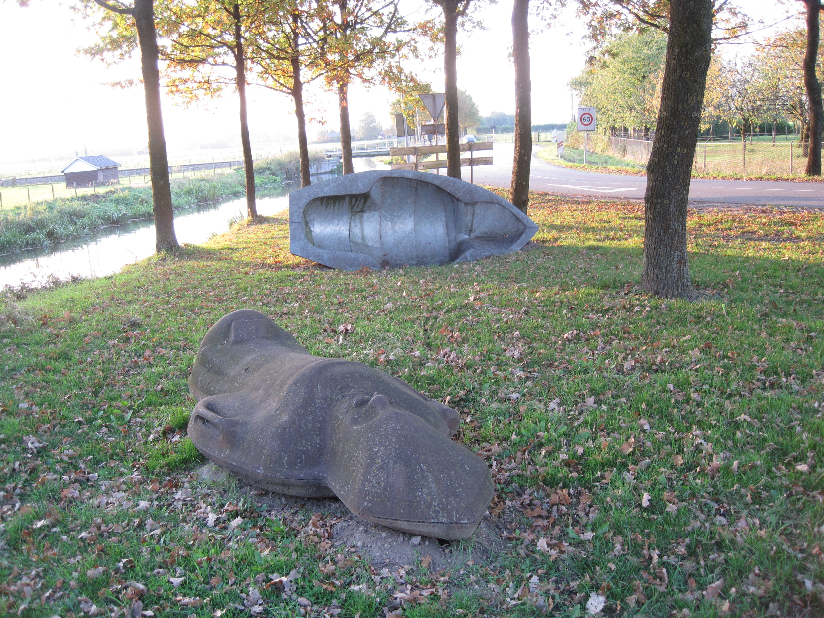 Sculpture "Werenfridus" by Alphons ter Avest (2000), Elst, Overbetuwe, the Netherlands